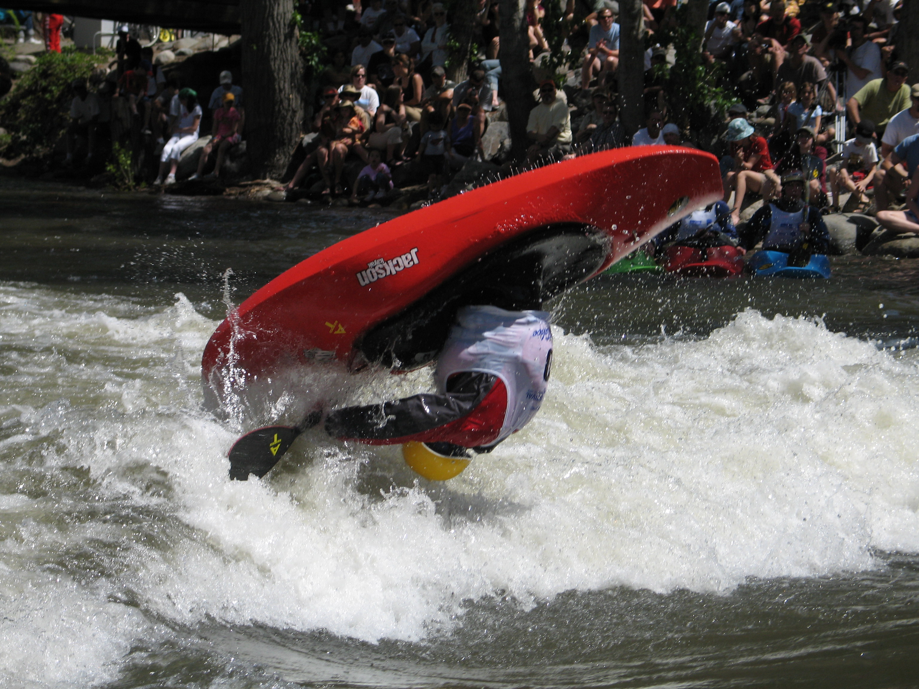 Kayaker performing an air loop at the Reno River Festival.